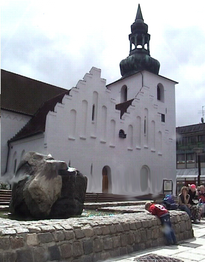 Lemvig Church in the center of Lemvig, Denmark. Photograph: Gerd Thiele, 2. August 2005